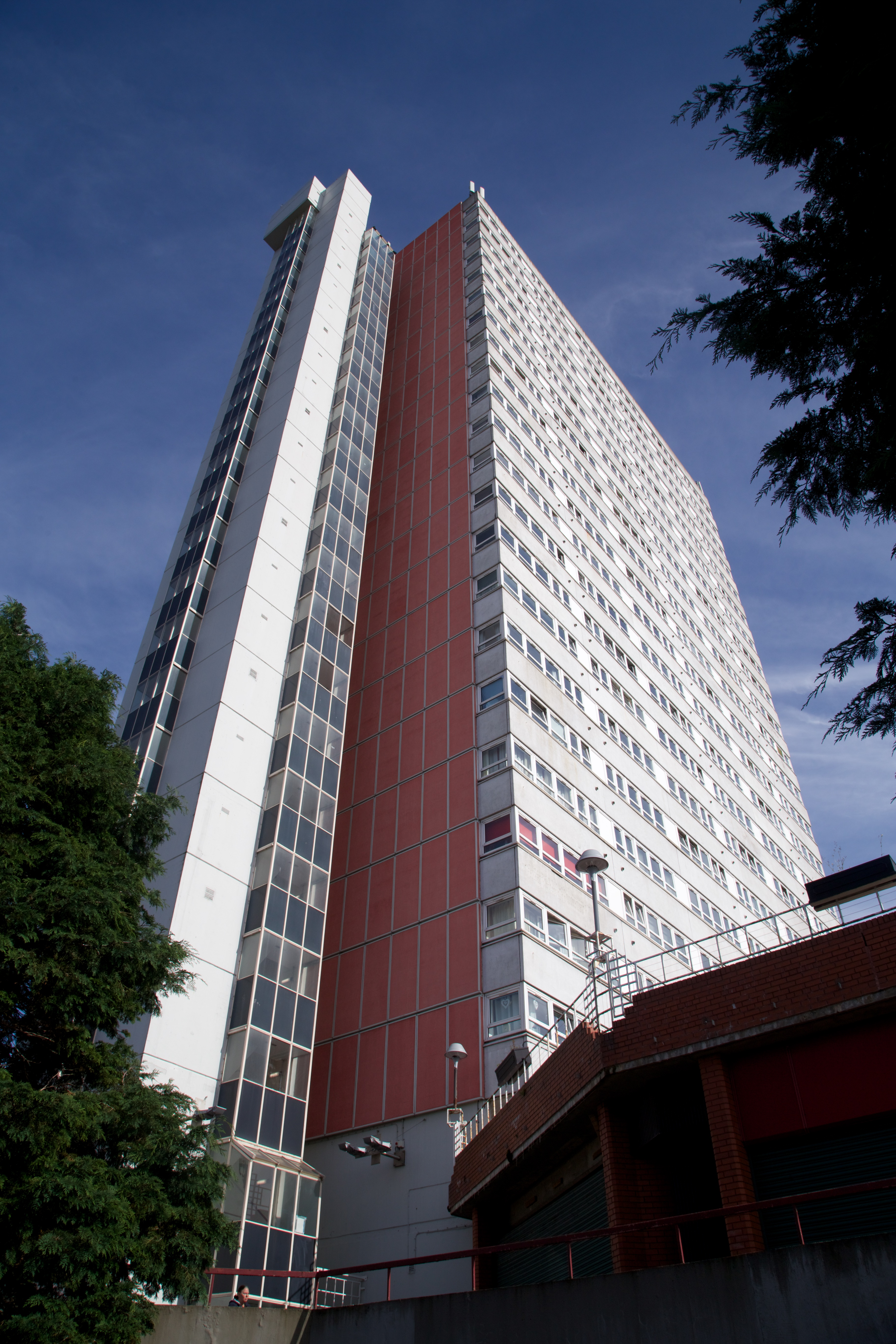 Anniesland Court Wikidata has entry Q4769474 with data related to this item.